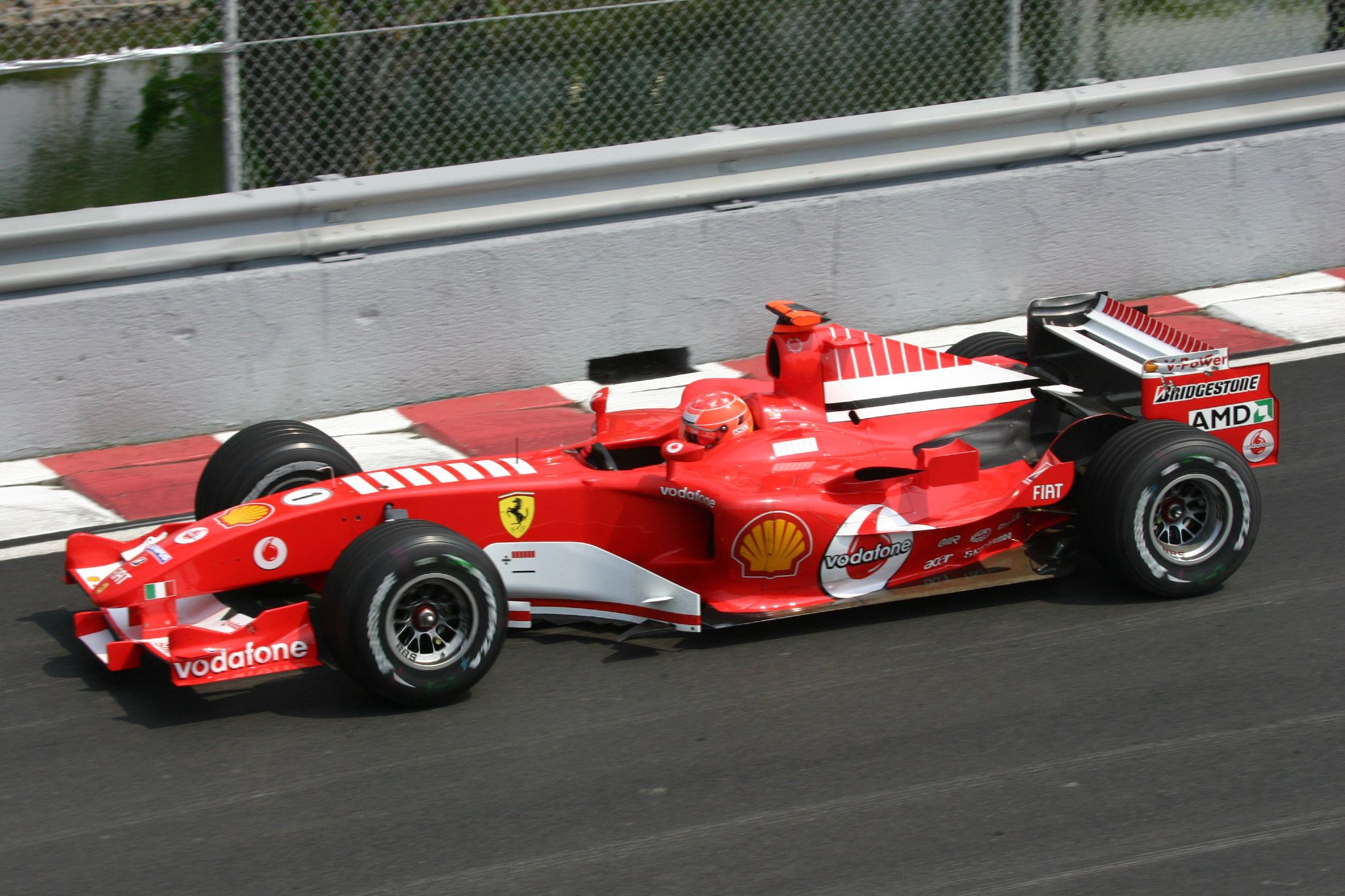 Michael Schumacher, Montreal, Canadian Grand Prix 2005, Friday Practice